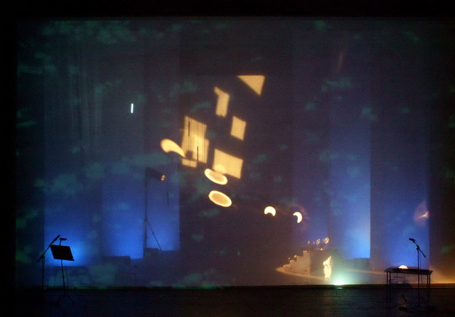 Light Poetry Performance "Städte am Meer", Staatsschauspiel Dresden/ Kleines Haus, 2005 (Light artist: Ruairí O'Brien)